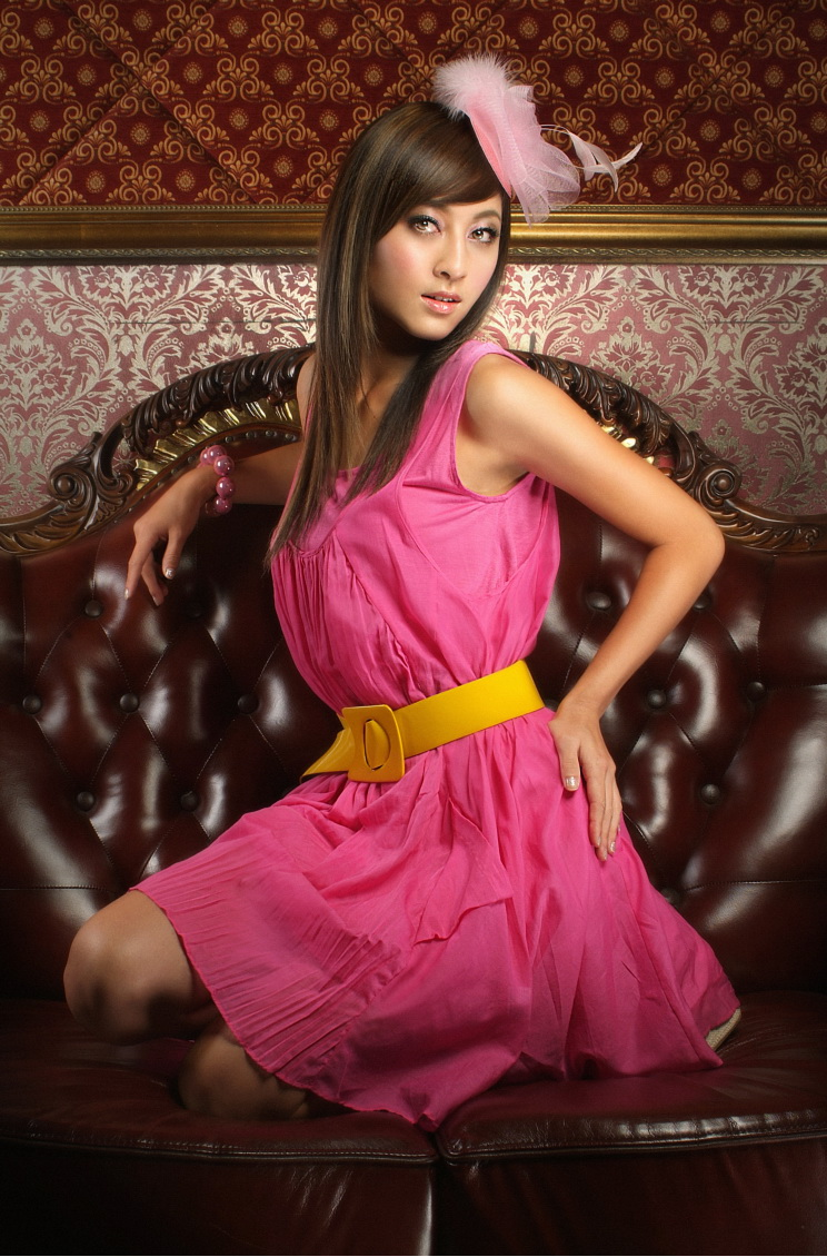 Cindy Lee